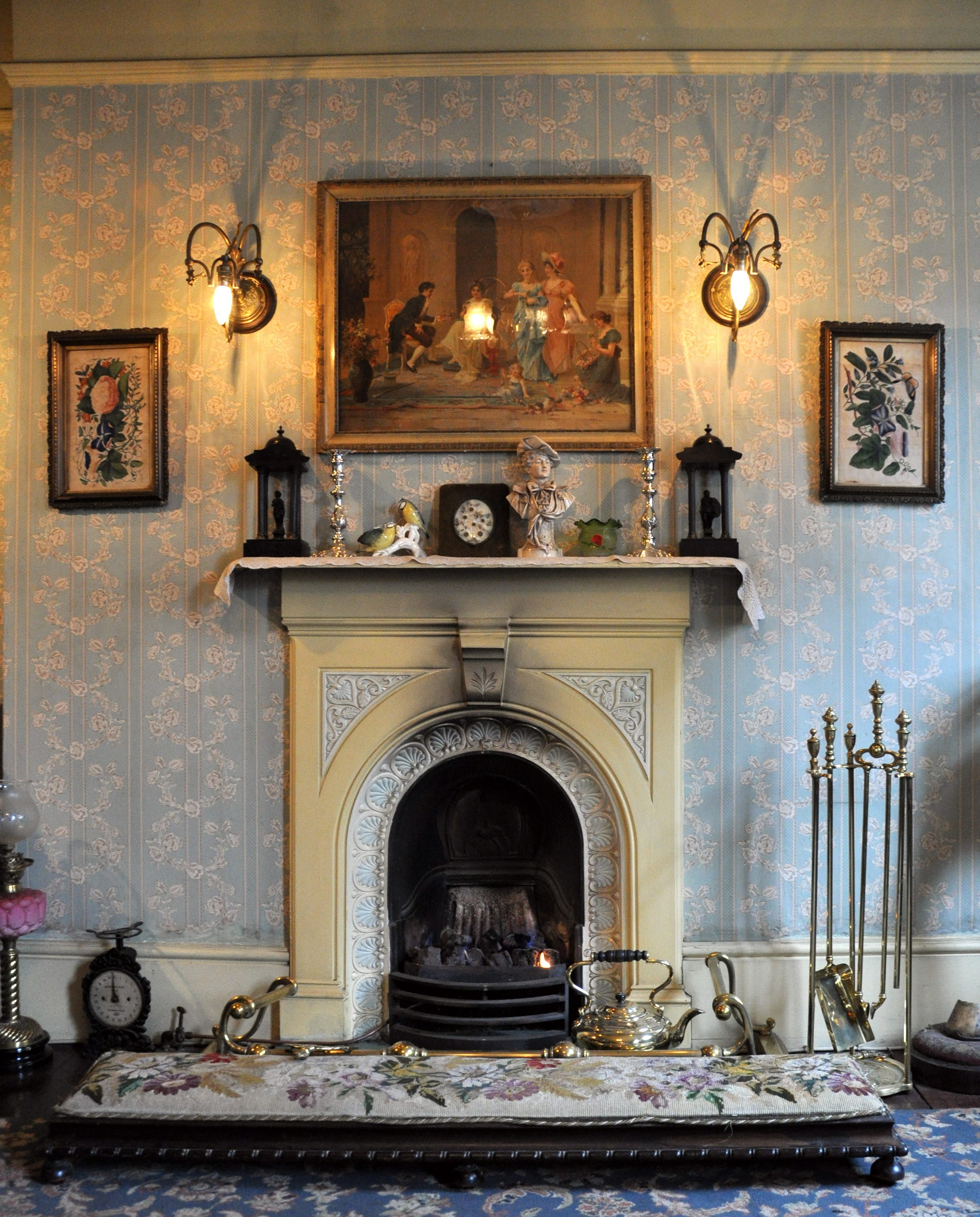 Sherlock Holmes Museum, Baker Street, London "Mrs Hudson's Room", fireplace